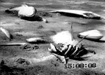 marine life killed by oxygen depletion fishkill Baltic - image Uwe Kils GFDL